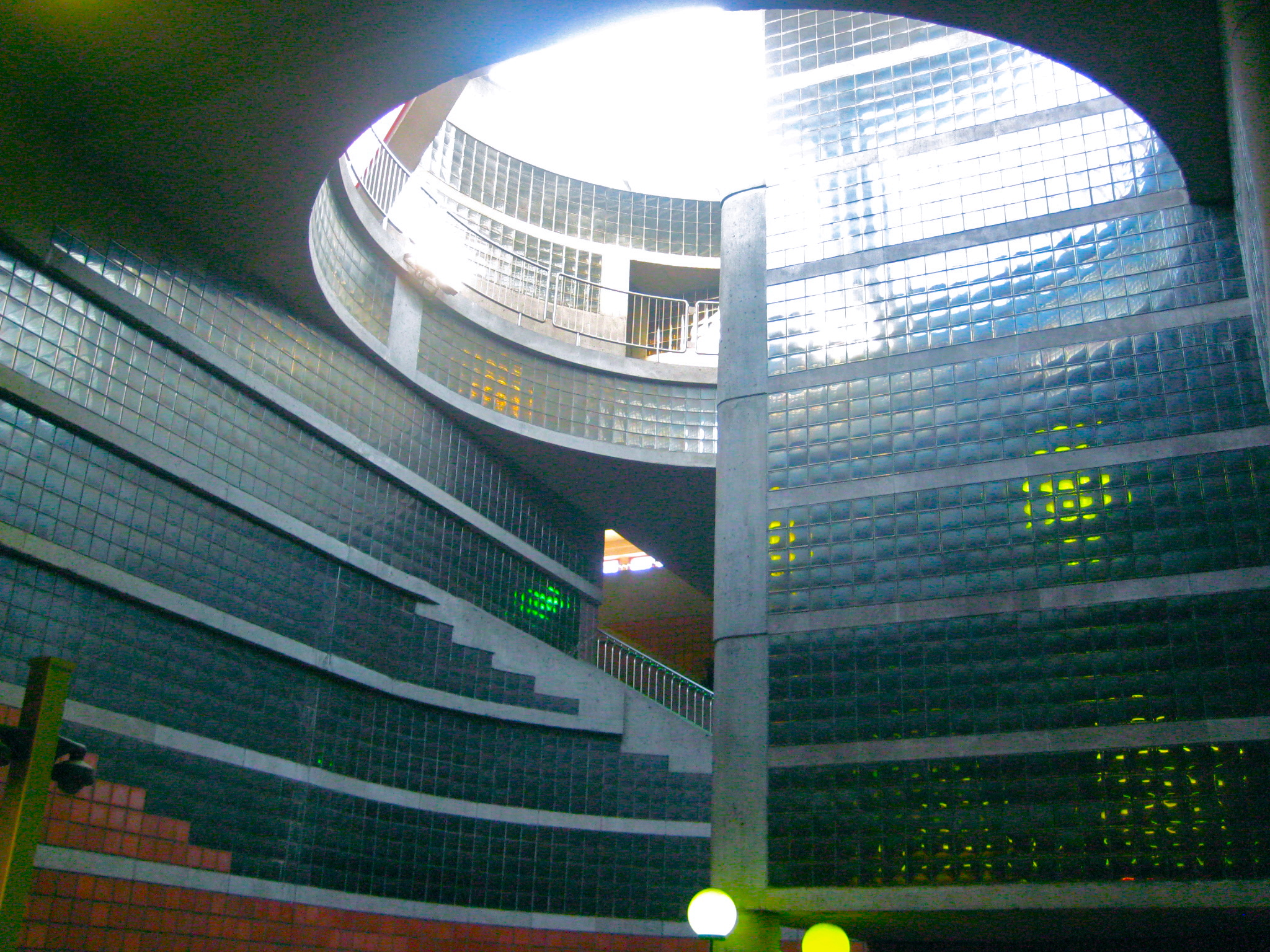 Outremont Station, Montreal Metro